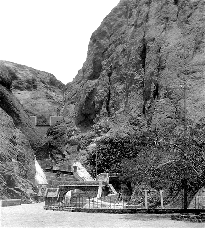 Here's a Wikipedia article that shows much better views of the cisterns.